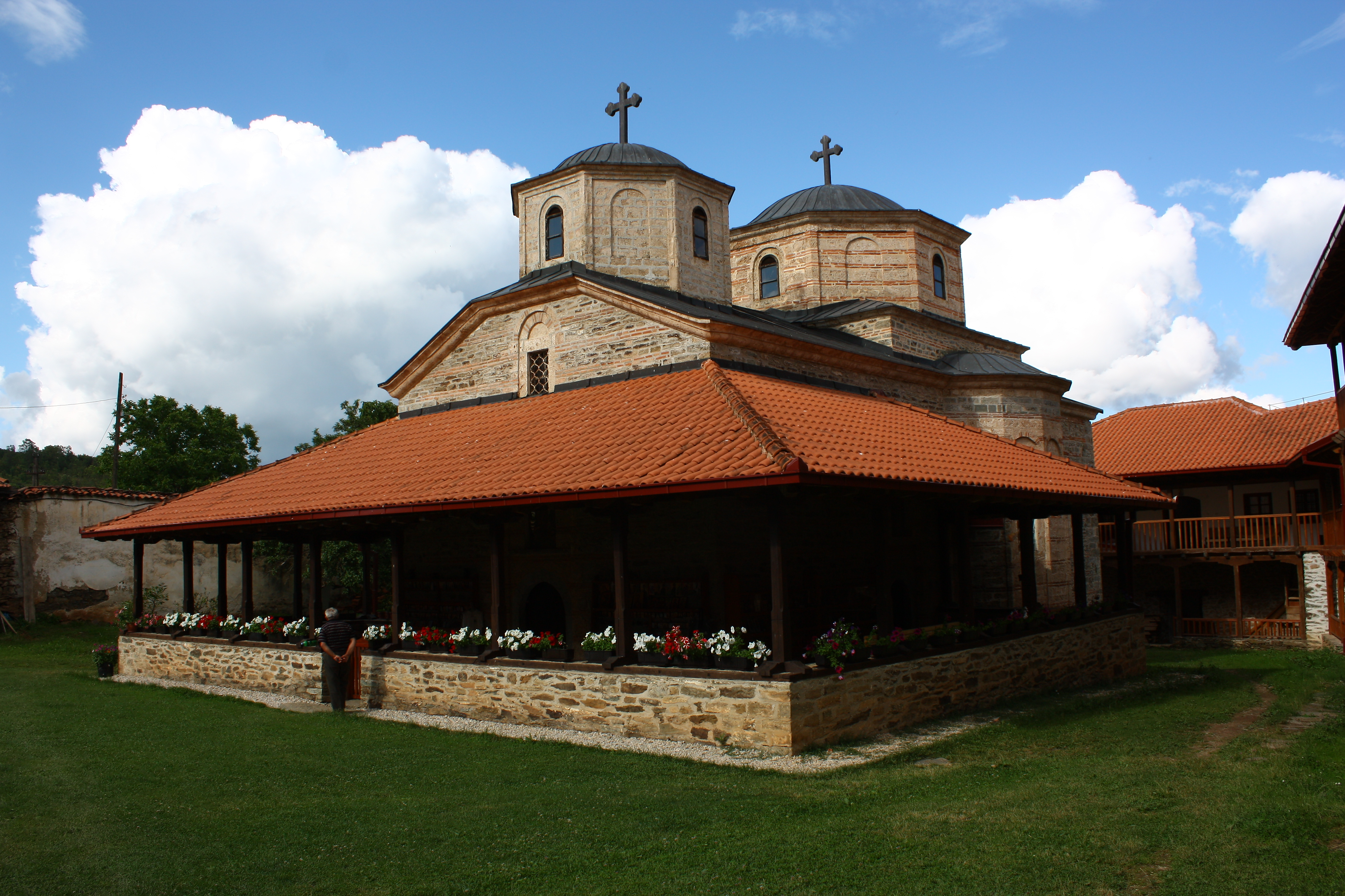 Slepče Monastery, Macedonia